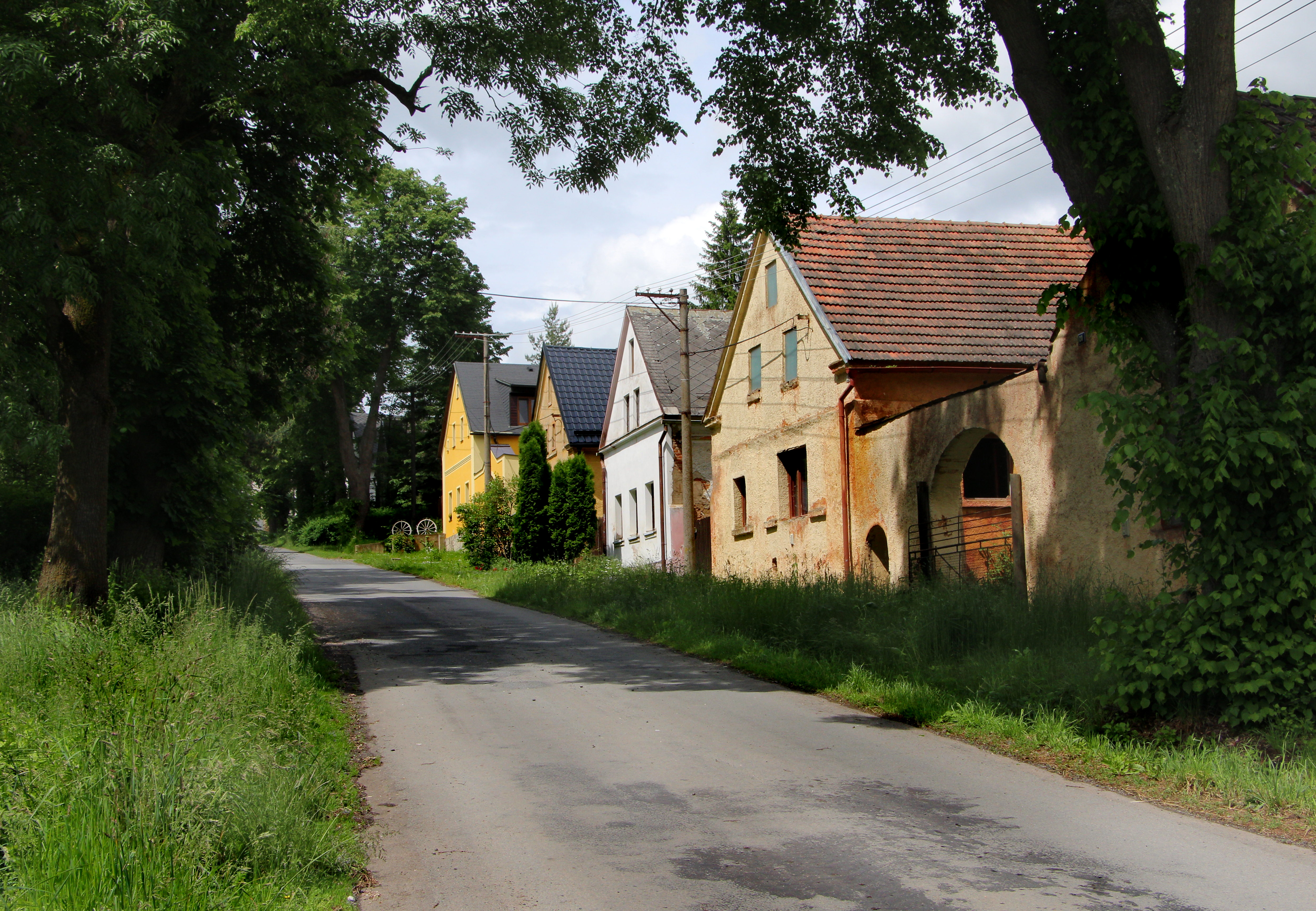 Common in Hanov, part of Lestkov, Czech Republic.